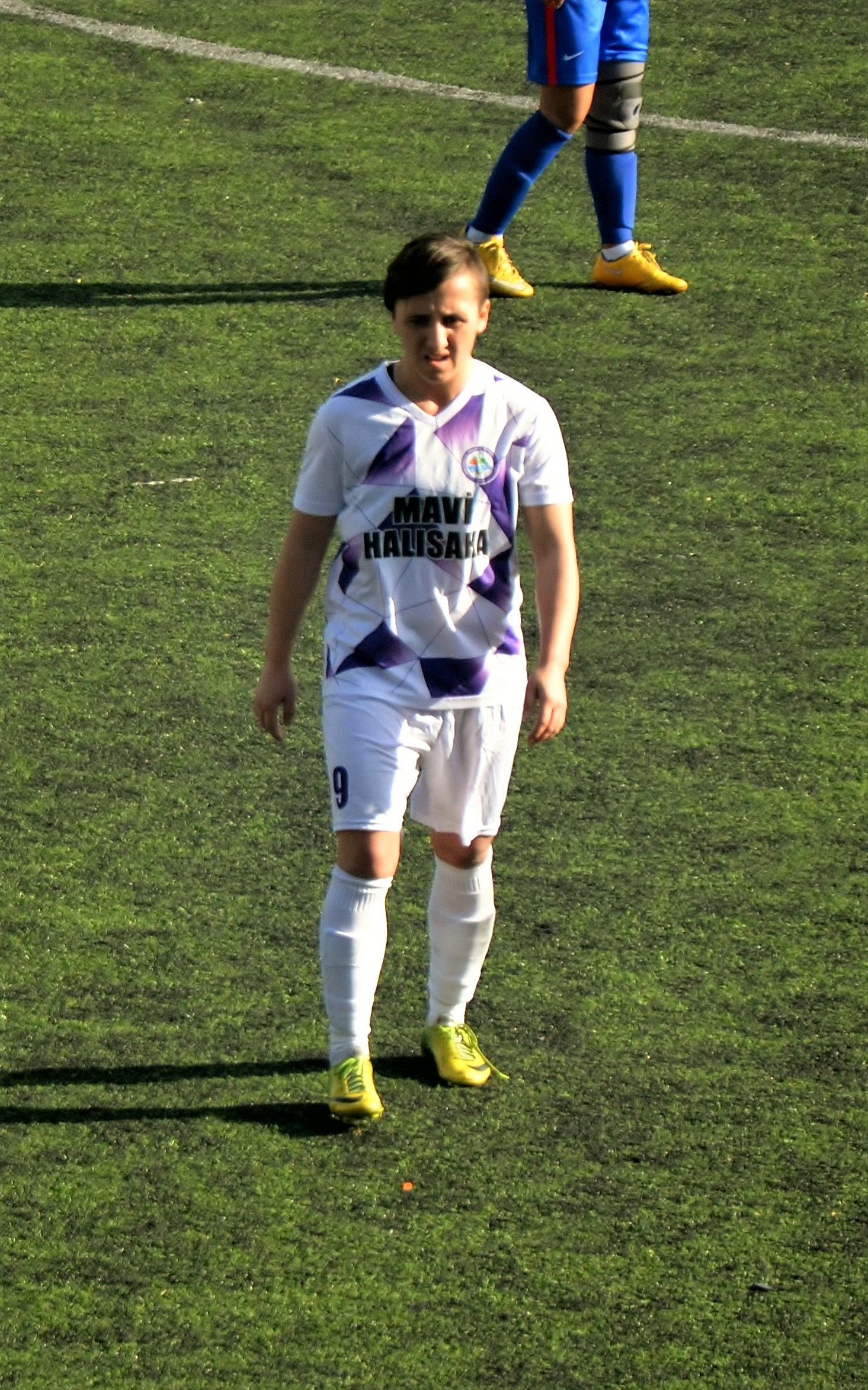 Teona Bakradze playing for Kdz. Ereğlispor in the 2017-18 Turkish Women's League season in the away match against Fatih Vatan Spor.